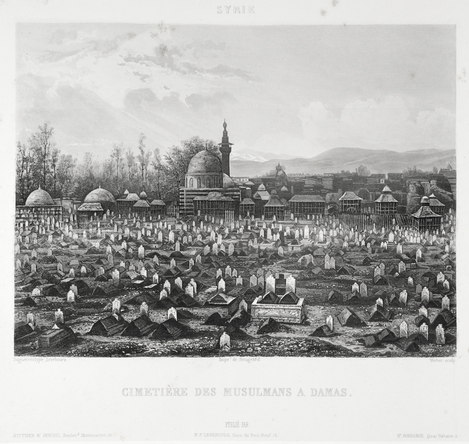 Engraving of one of the first photographs of the Muslim cemetery of Damascus. Daguerreotype photograph taken by Pierre-Gustave Joly (Pierre-Gustave Joly de Lotbinière) in March, 1840. Engraved by Antoine Jean Weber. Published in Excursions daguerriennes, Noël Paymal Lerebours publisher, in 1841.Excerpts from the accompanying text, written by Pierre-Gustave Joly, published in Excursions daguerriennes (this text is in the public domain, like the image):"[...] This plate shows only a small part of the Muslim cemetery of Damas. The mosque in the center is the tomb of a prince; the grilled cages surround and protect the graves of the rich; the numerous tumular stones mark the graves of the poor, and are often walked on by the passers-by. [...] In the background, the Anti-Lebanon Mountains can be seen [...] "